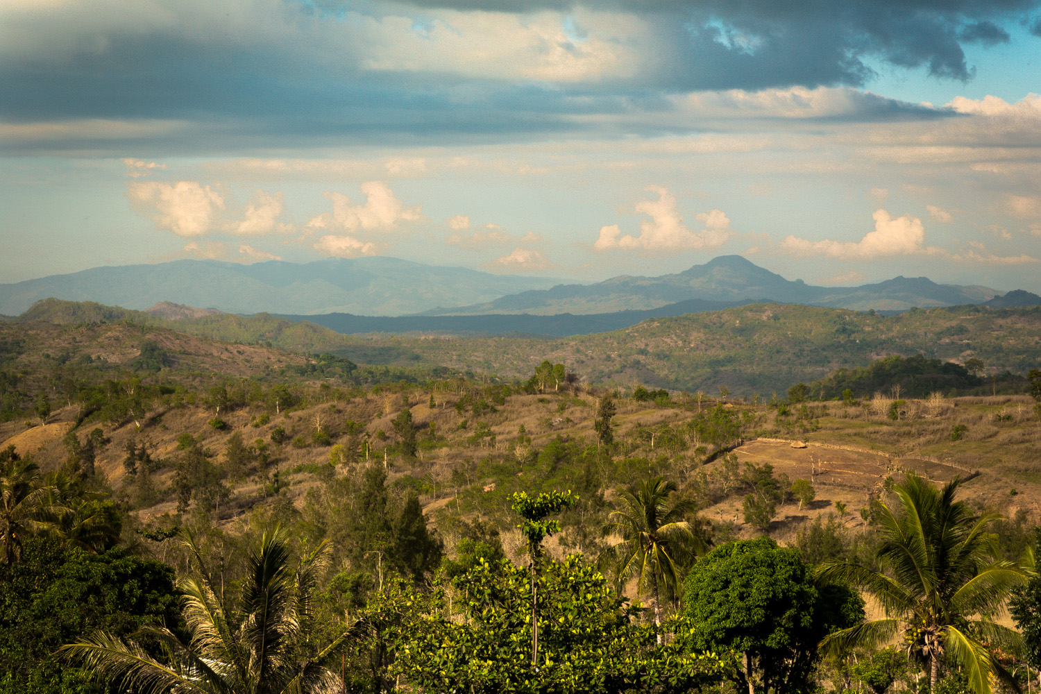 View from Balibo Fortress